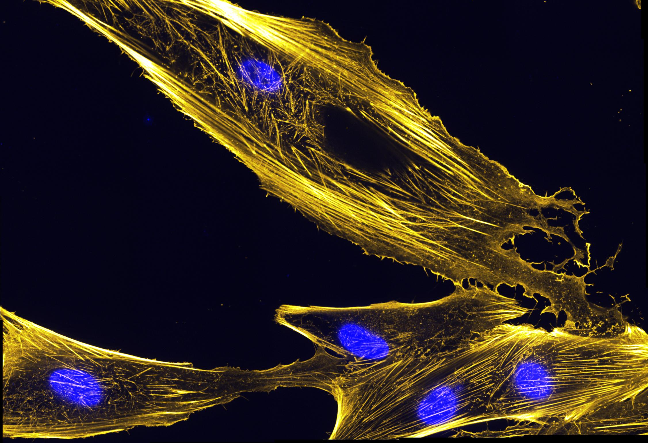 Muscle precursor cells are called myoblasts. Fibers are made of actin, in yellow, and the nuclei are shown in blue.